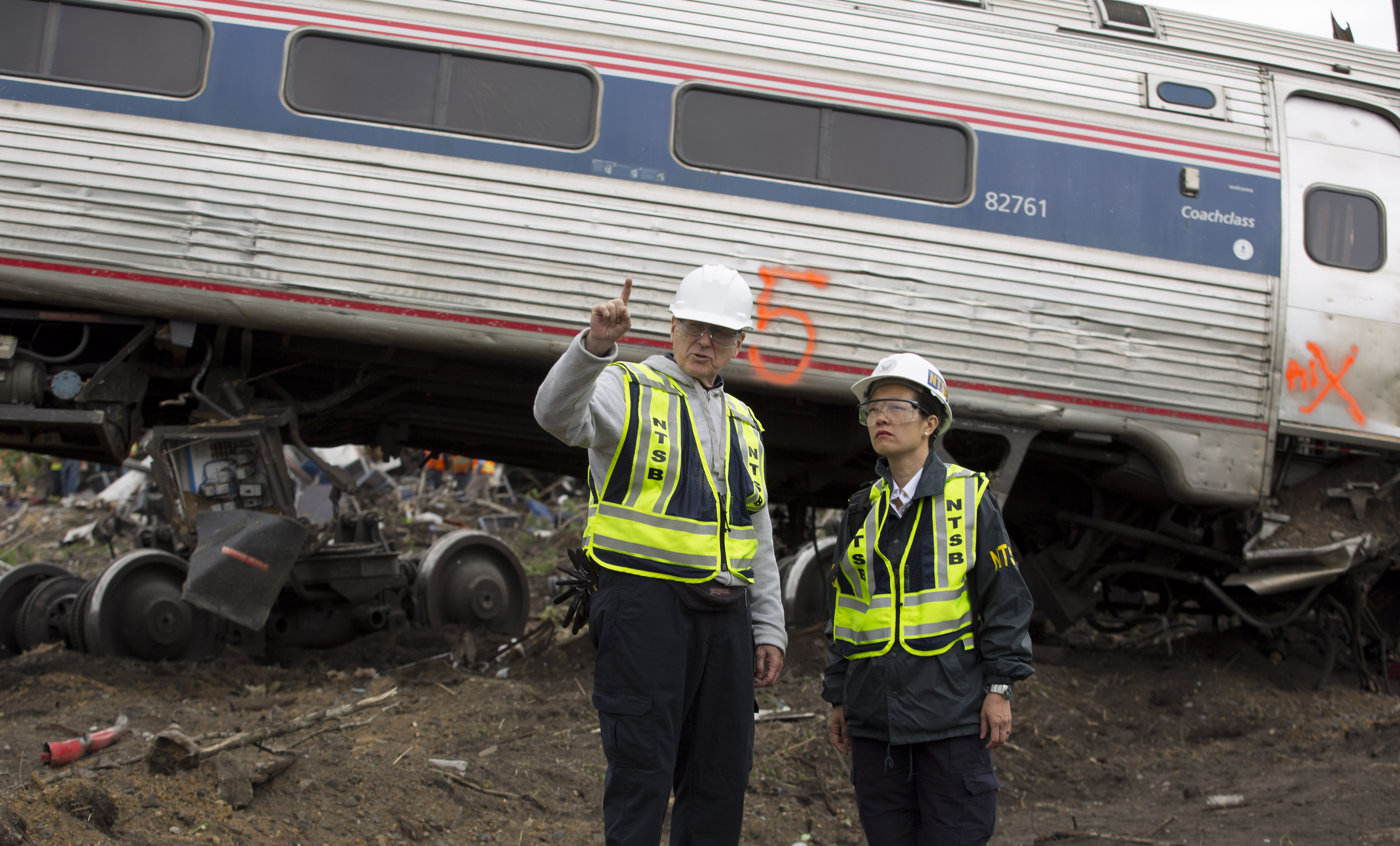 NTSB IIC Mike Flanigon briefs Vice Chairman Dinh-Zarr on the scene of the Amtrak Train #188 Derailment in Philadelphia, PA